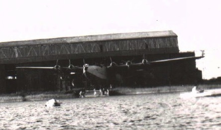 Latécoère 631 (unidentified number) - Wharf of Biscarrosse Lake